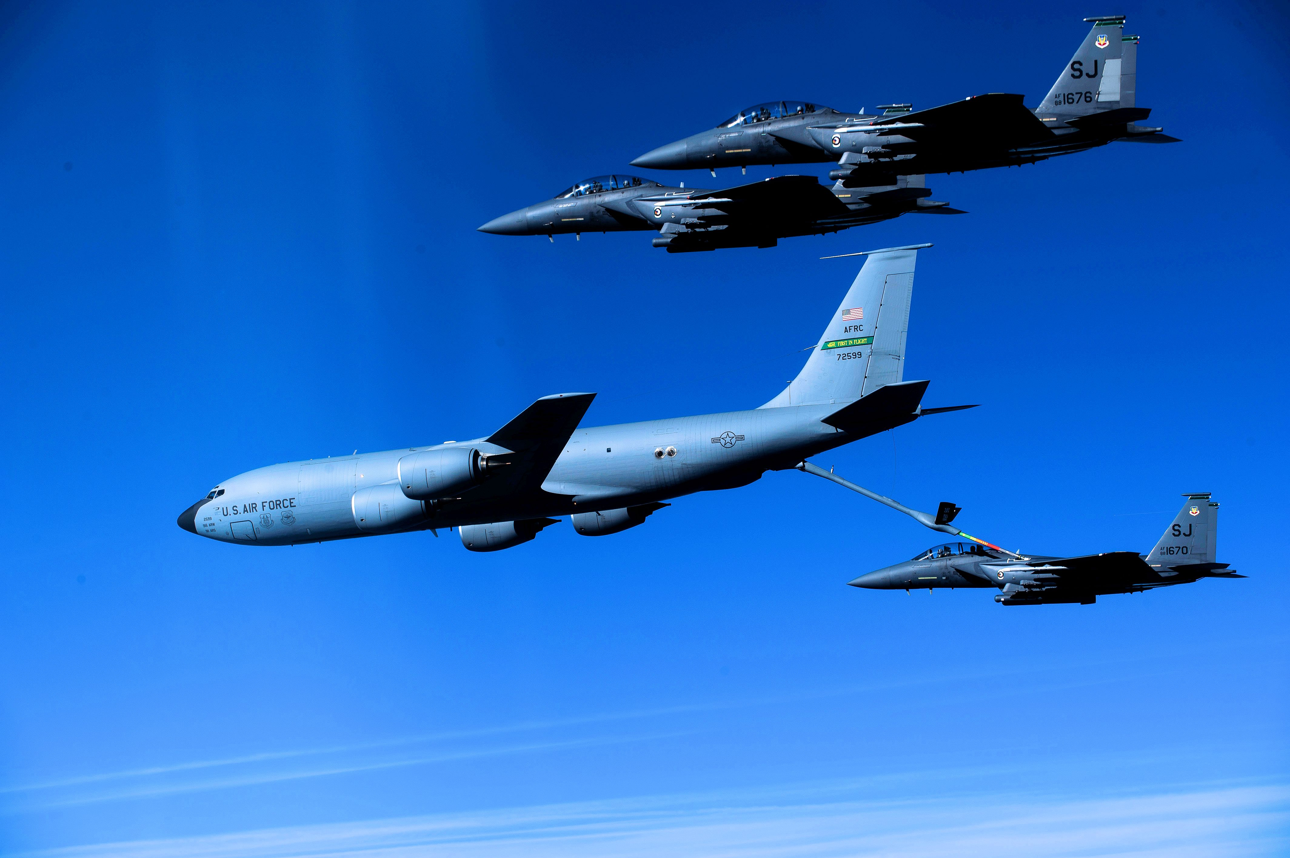 A KC-135R Stratotanker from the 916th Air Refueling Wing refuels an F-15E Strike Eagle in December 2010. Air Force officials recently announced the new contract for the next generation of air-to-air refueling aircraft. (USAF photo by SSgt. Michael Keller, 1CTCS)